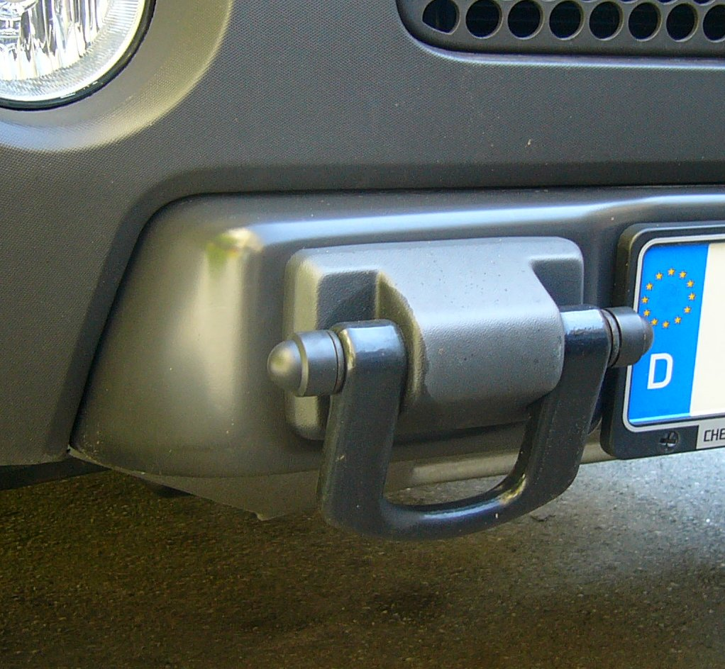 Hook of a Hummer III (front).